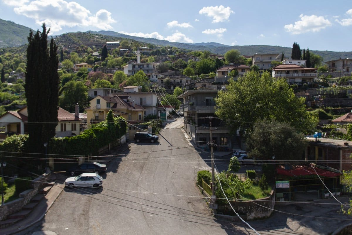 Lazarat village, center